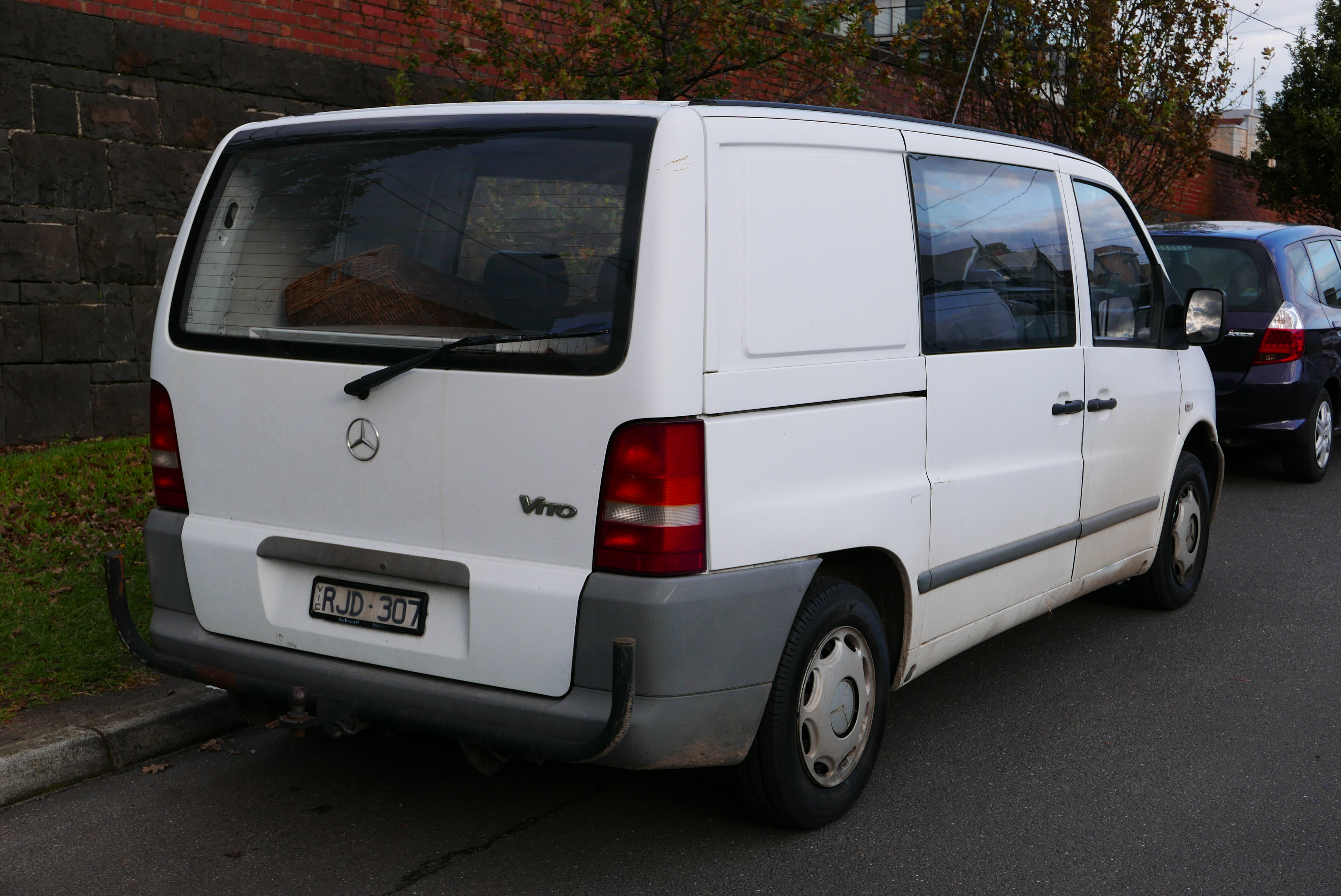 2001 Mercedes-Benz Vito (W 638) 108 CDI van. Photographed in Northcote, Victoria, Australia. Vehicle registration enquiry resultsJurisdictionVictoriaRegistrationRJD307Chassis codeVSA63809423419703Engine code61198050436096Compliance date2001-11Year of manufacture2002 (not a typo)